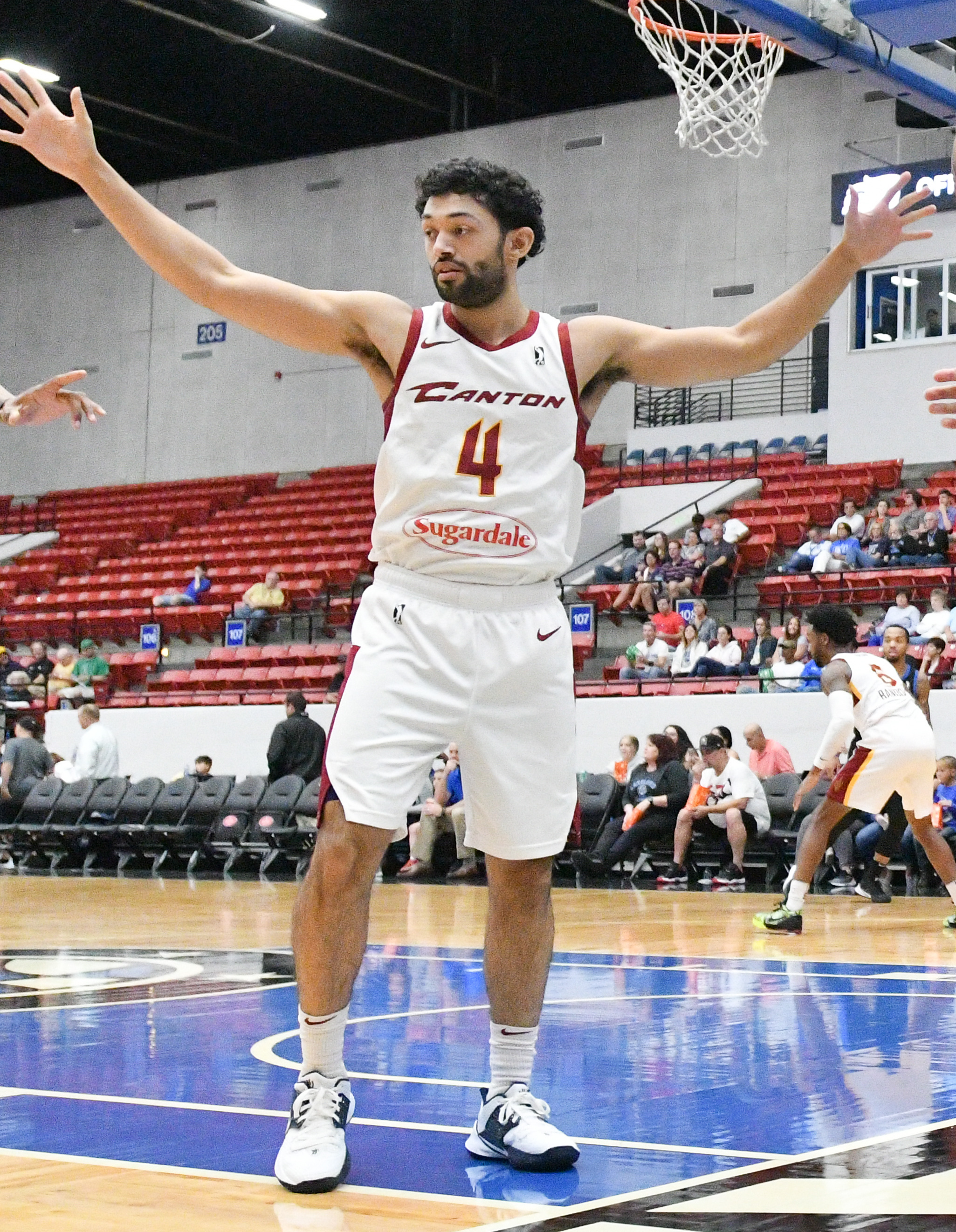 Lakeland Magic vs Canton Charge. RP Funding Center. Lakeland, Fla. Jan. 2, 2020. (Photo by Tom Hagerty.)